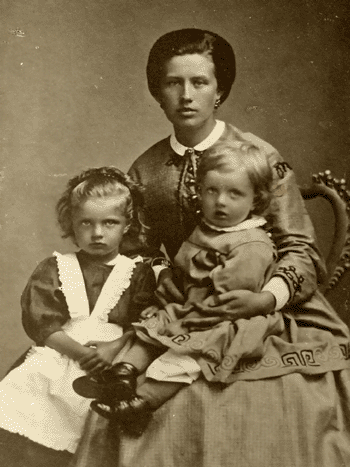 Maria Charlotta Borg and two of her children: Linda and Janne. Janne became the famous Finnish composer Jean Sibelius.